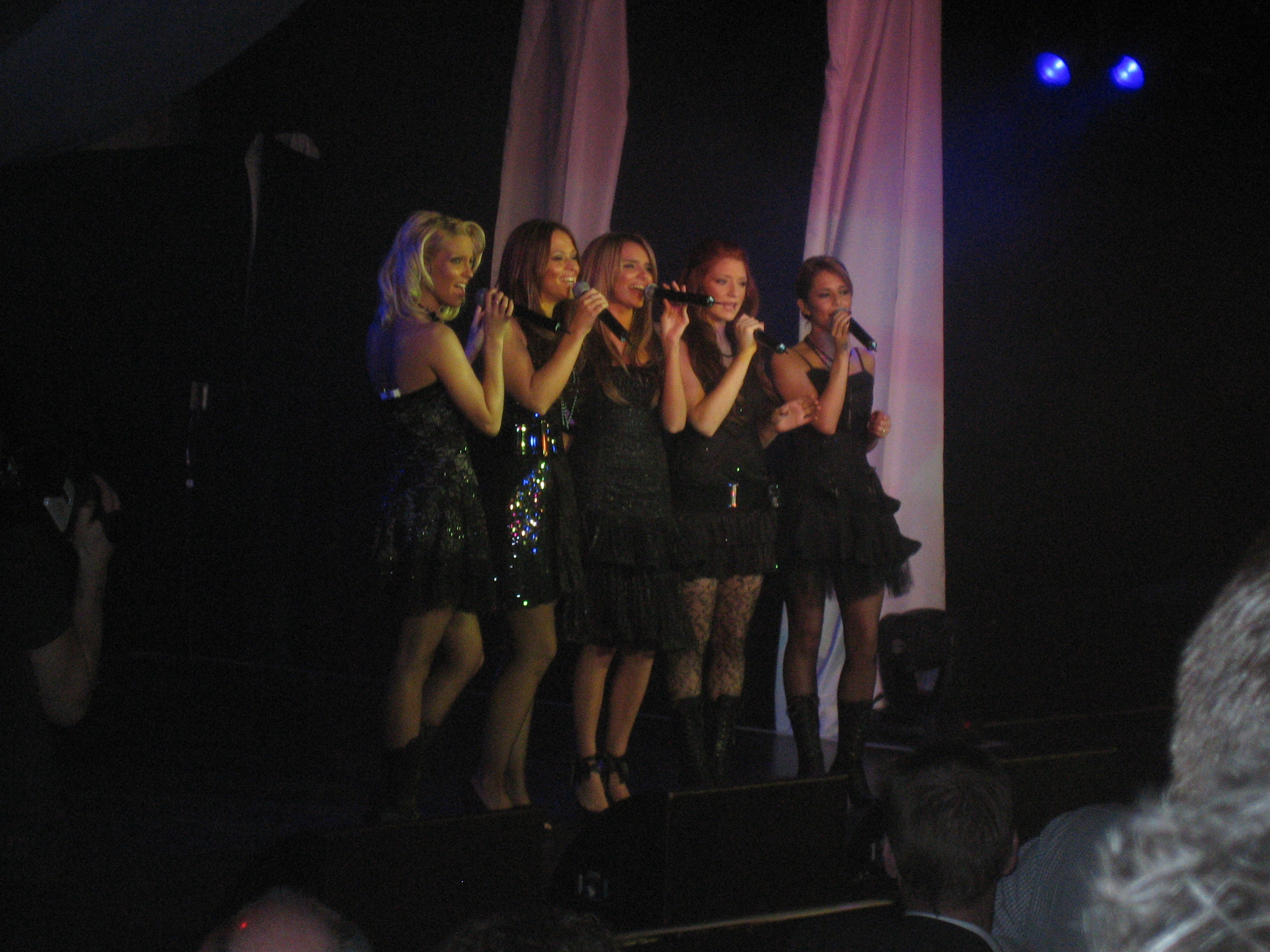 Girls Aloud on stage at the Capital Radio Help a London Child fundraiser